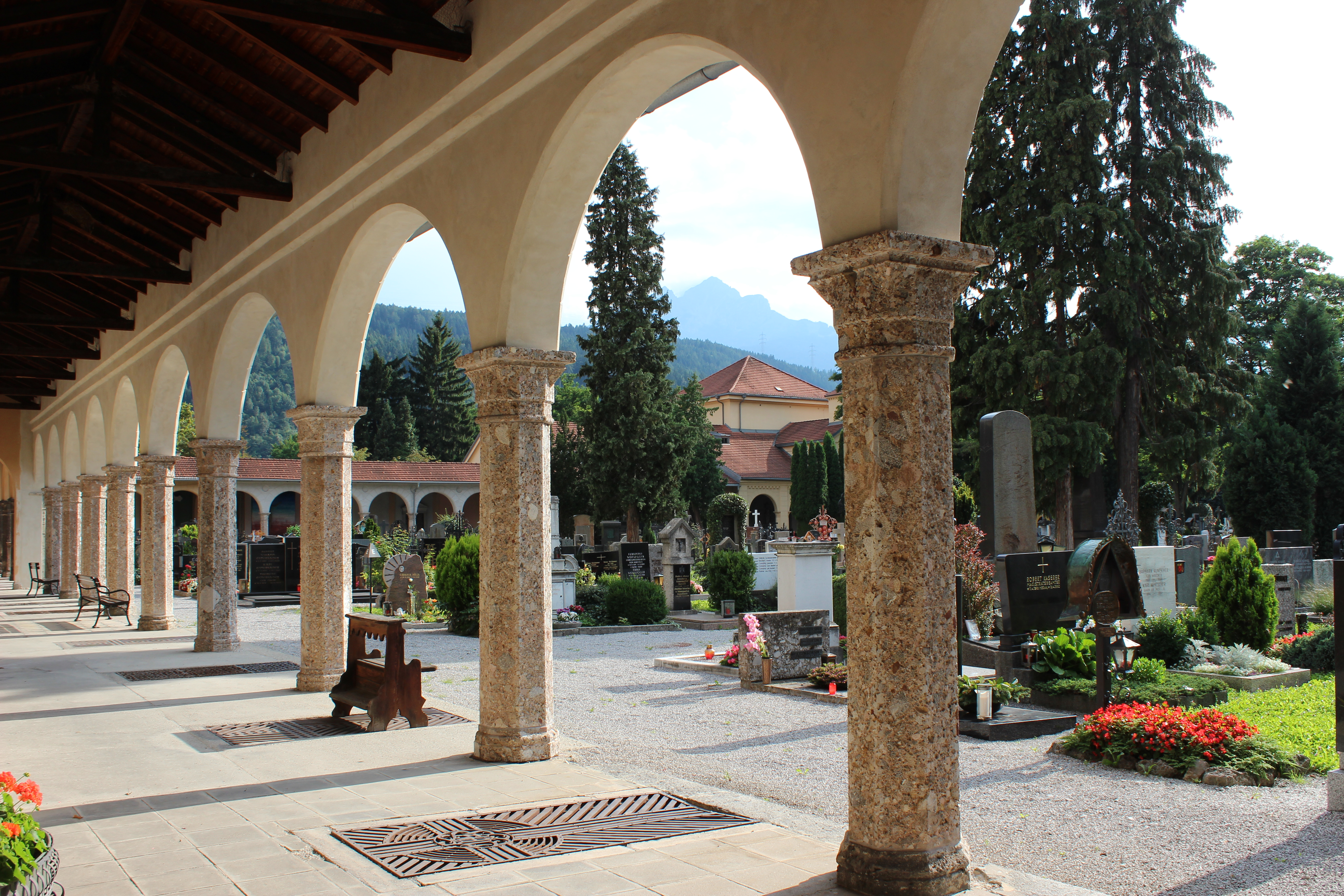 The Westfriedhof (en. western cemetery) in Innsbruck.